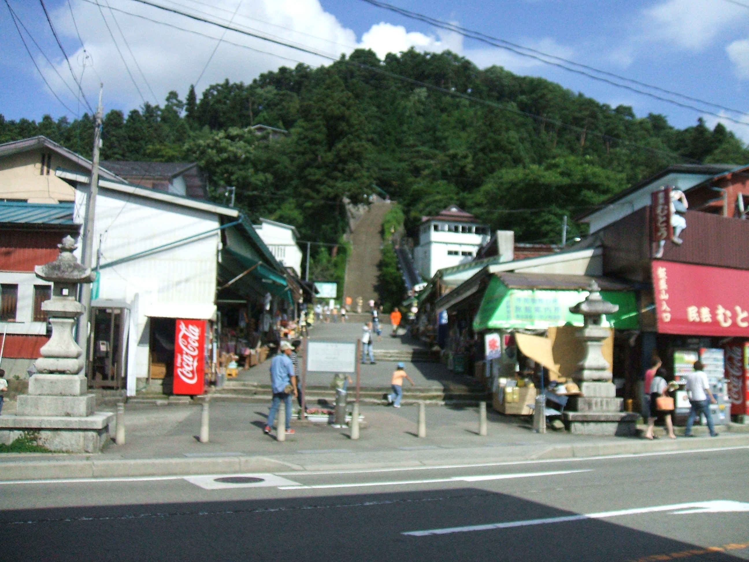 This is a landscape of Imoriyama of Aizuwakamatsu, Fukushima, Japan.